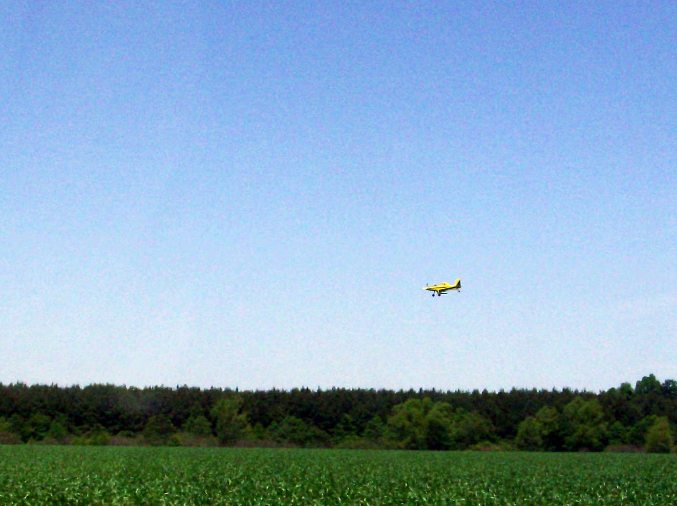 Plane preparing to dust crops near Pine Bluff, AR